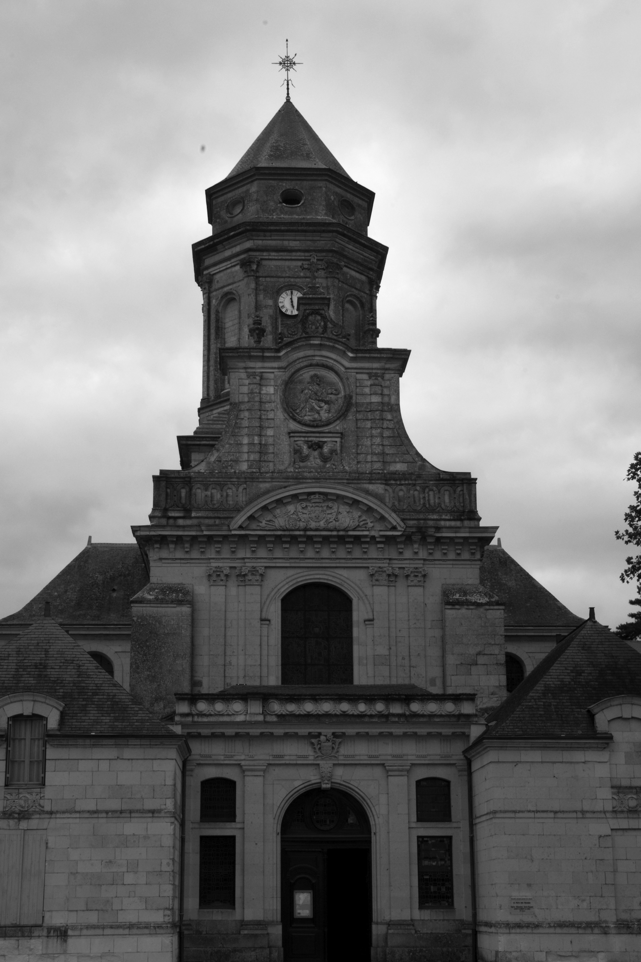 Abbey church of Saint-Florent-Le-Vieil